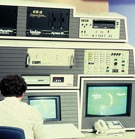 Cromemco CS-2 microcomputer with Super Dazzler in Television Broadcast control room - used for graphics generation.